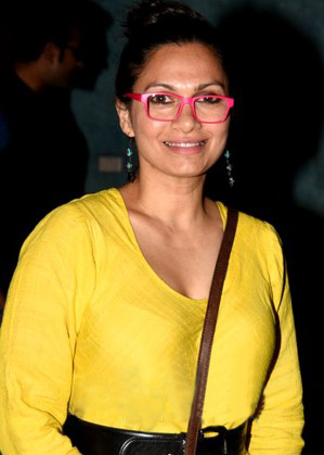 Maria Goretti graces the screening of Sonata.